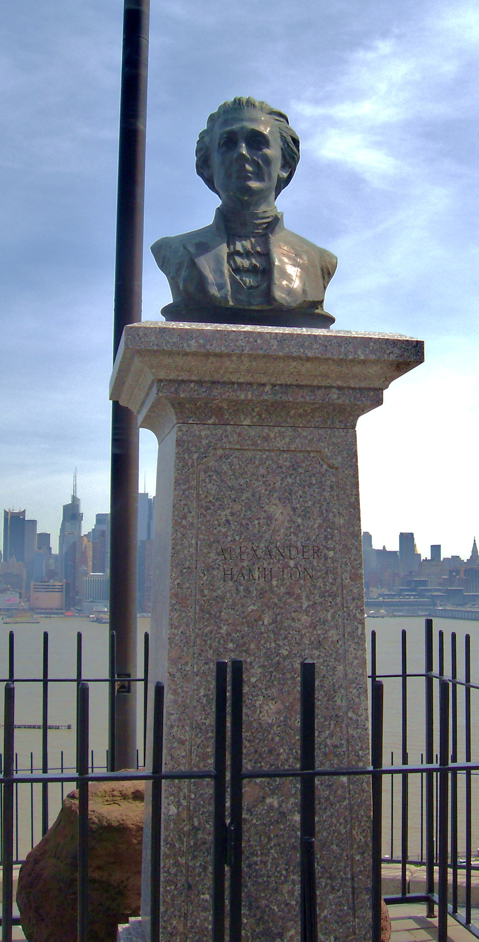 Bust of Alexander Hamilton in Hamilton Park, Weehawken, New Jersey.